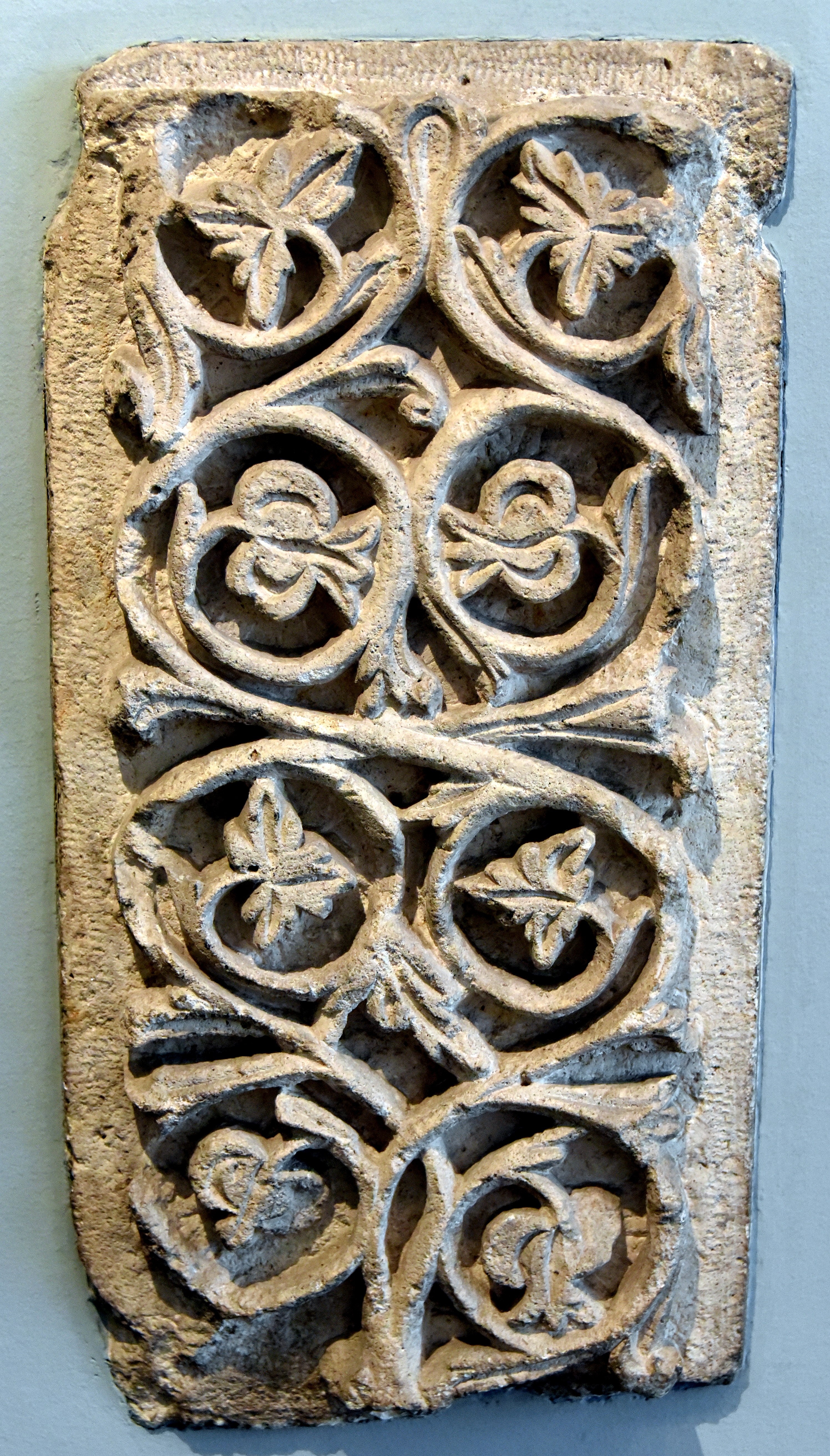 Wall architectural decoration from Khirbat al-Minya (on the northern bank of Tiberius Lake, in the modern-day State of Israel, reign of the Umayyad Caliph Al-Walid I (Al-Walid ibn Abd al-Malik ibn Marwan), 705-715 CE. Pergamon Museum, Berlin, Germany.